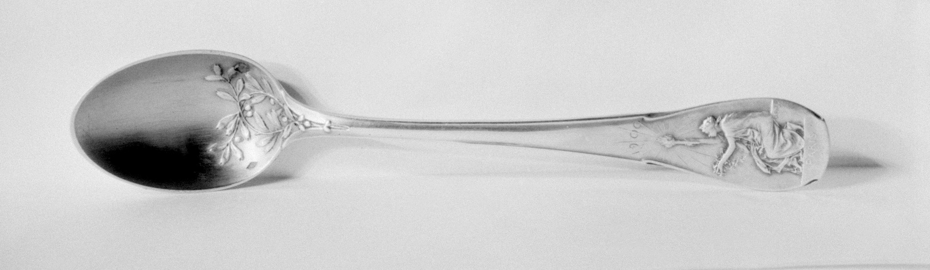 French, Paris; Souvenir spoon; Metalwork-Silver